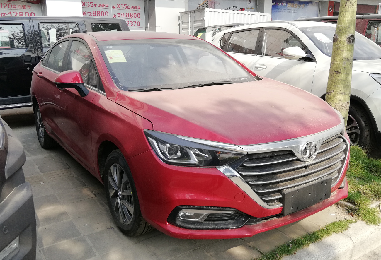 Senova D50 II photographed in Guangzhou, Guangdong province, China.